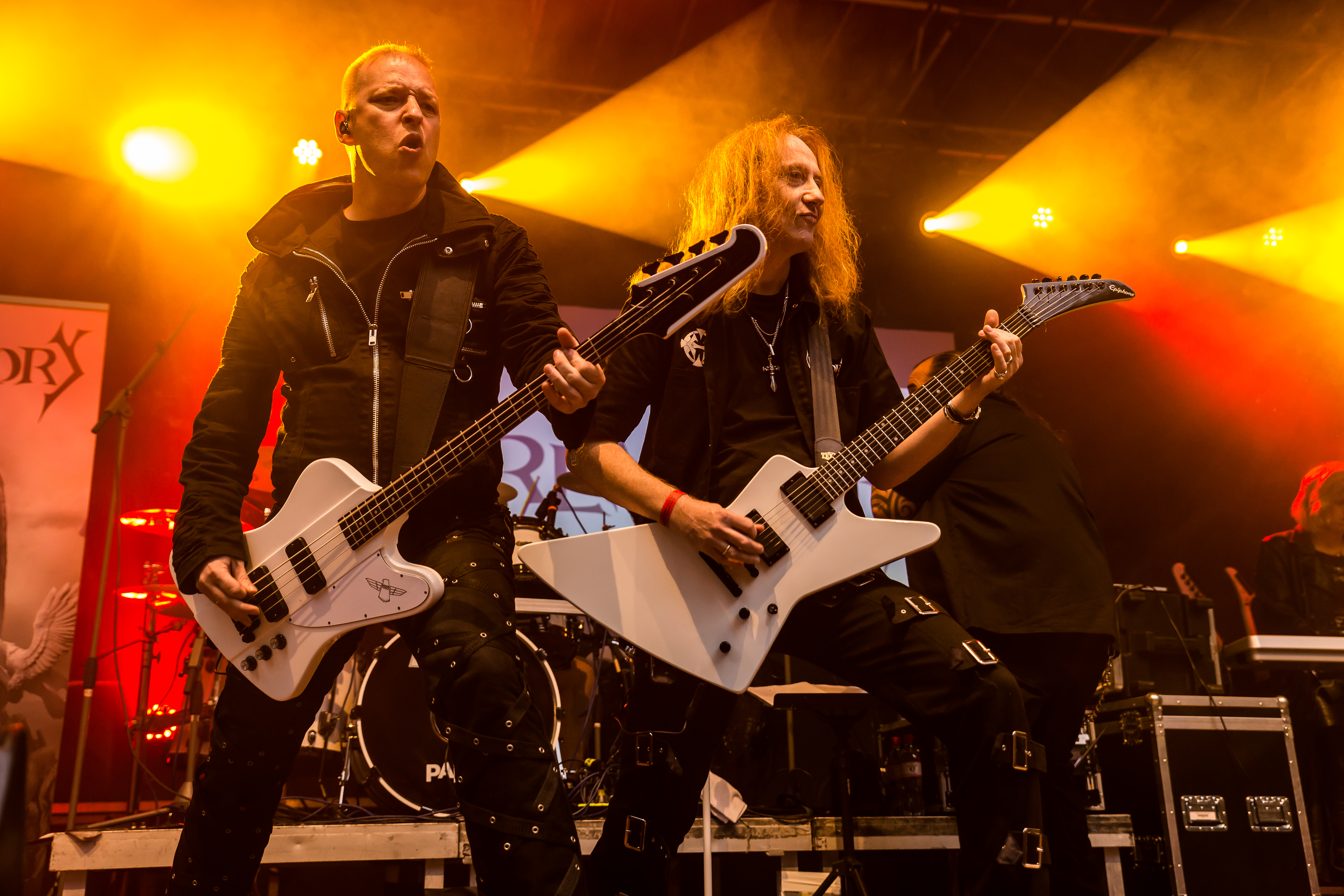 The German gothic metal band Crematory at the Nocturnal Culture Night 12 2017 in Deutzen/Germany.